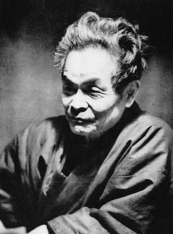 Joji Tsubota (writer)